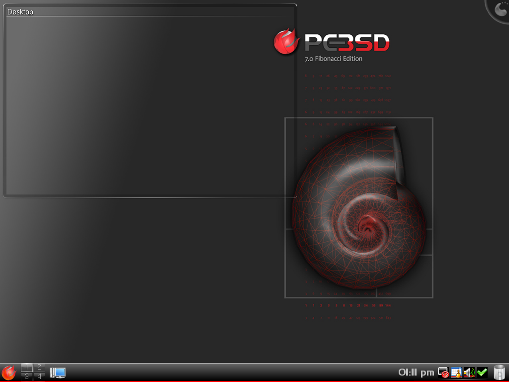 A self-made screenshot of PC-BSD 7.0 with KDE 4.1